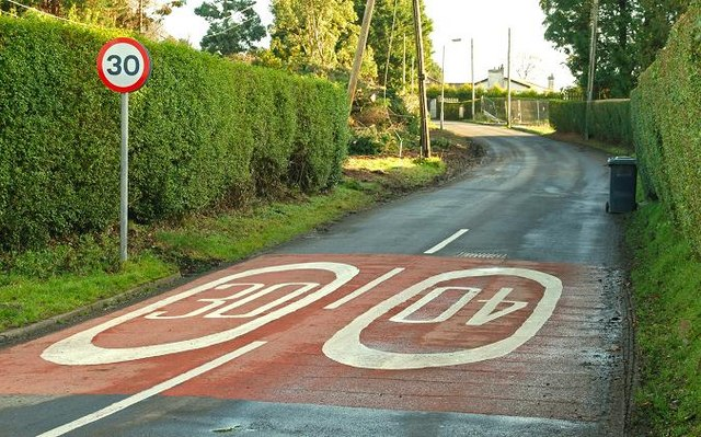 Road markings, Dromore The view, from the Hillsborough Road, outward along the Ballymacormick Road showing the speed limits on the two roads. The Ballymacormick Road is not as rural as it appears. Recent development is hidden by the bend.